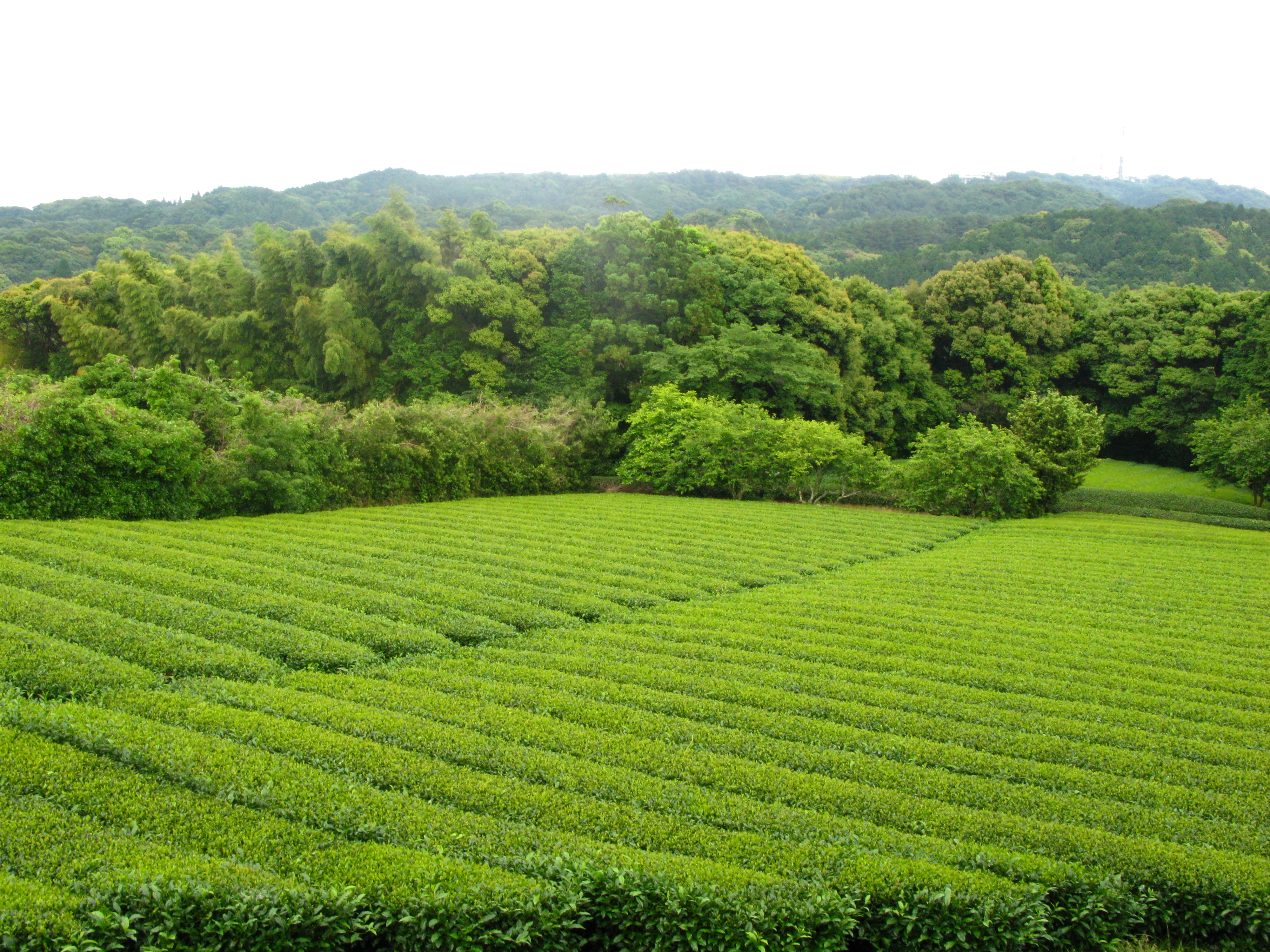 Shizuoka tea plantation, Japan